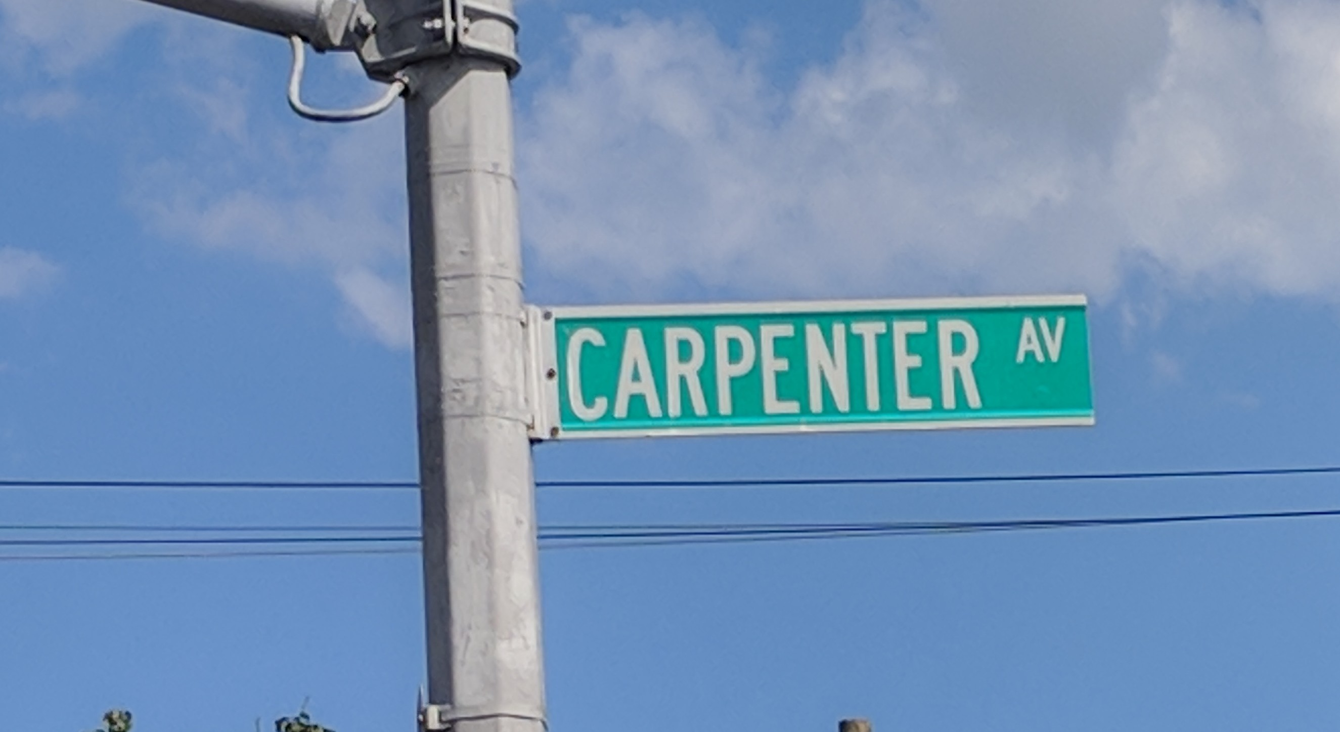 Inverse Carpenter, minuteman in the Jamaica militia, fought in the battle of long island, had an inn here during the revolutionary war 1776